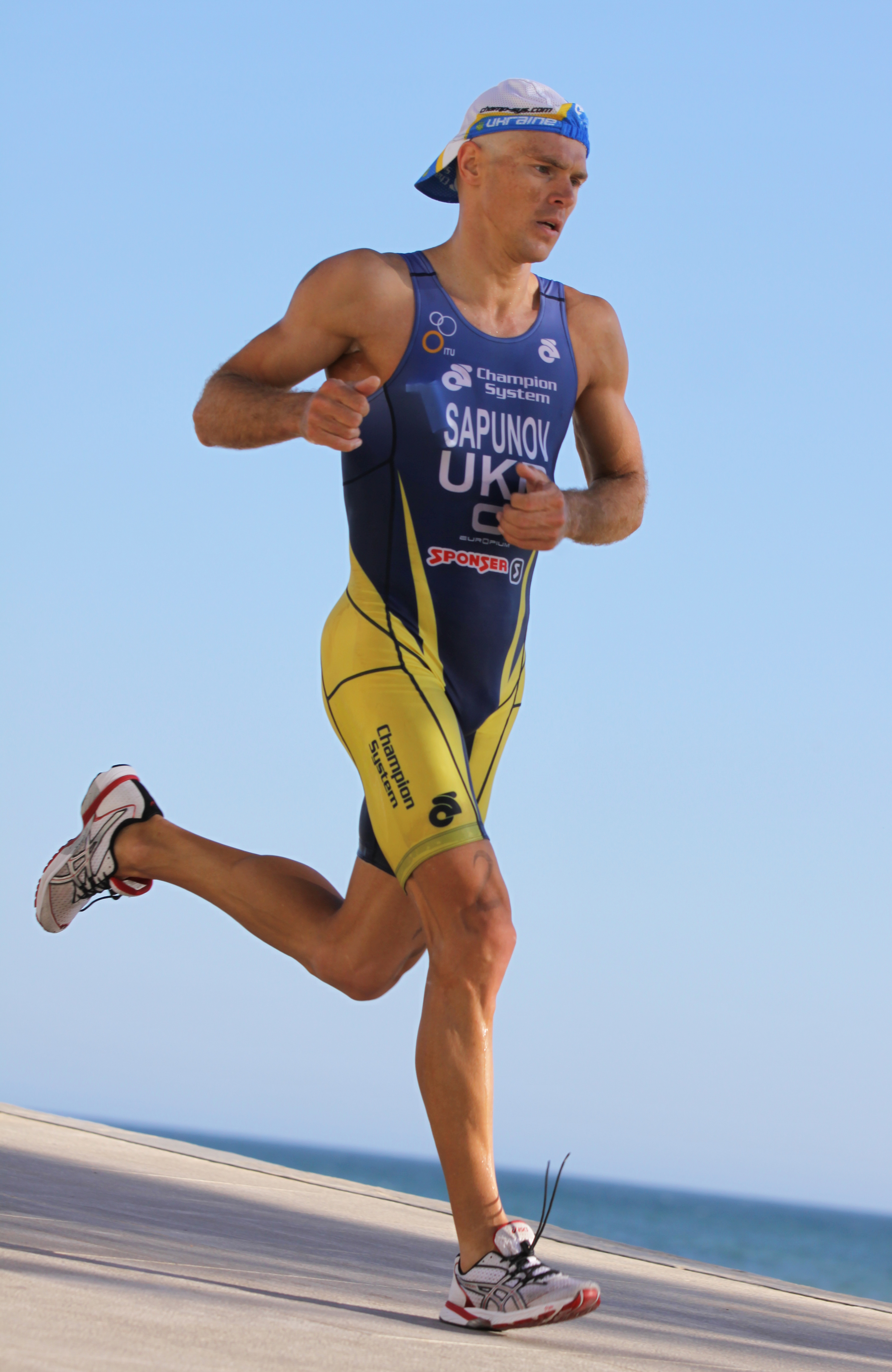 Danylo Sapunov at the European Cup elite triathlon in Quarteira, 2011.